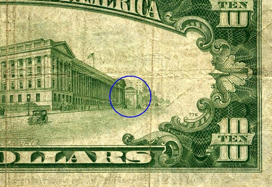 detail of back of the United States $10 bill showing the American Security and Trust Company Building